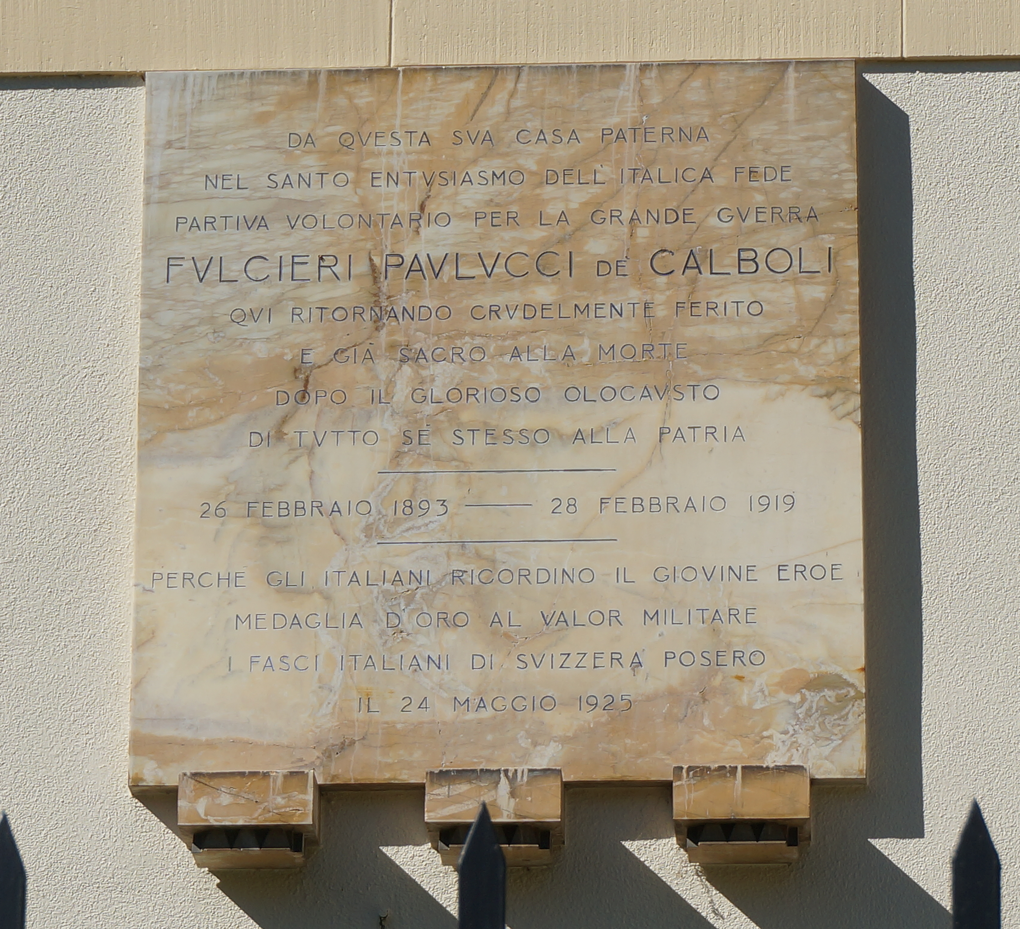 Bern, Elfenstrasse 10. Inscription in honour of Fulceri Paulucci de Calboli on the bulding of the Italian Embassy in Bern.